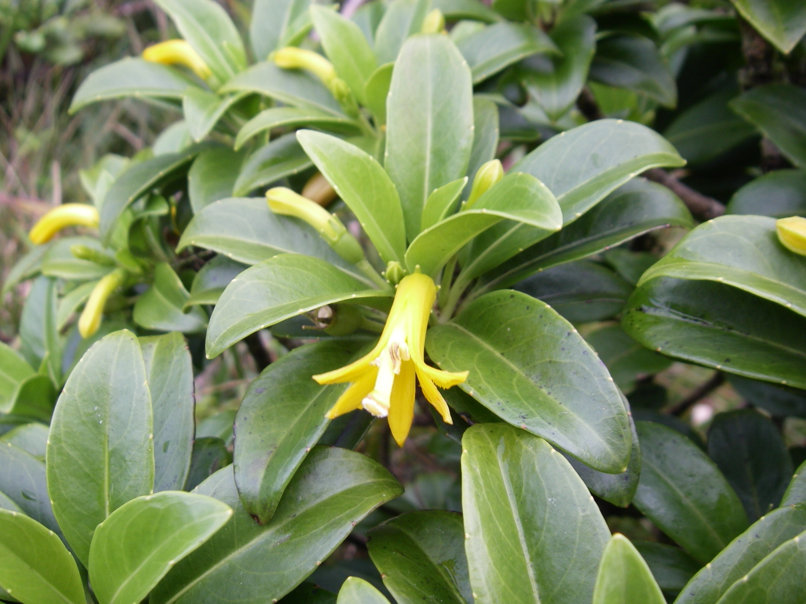 A close-up picture of a Scaevola Glabra plant in flower